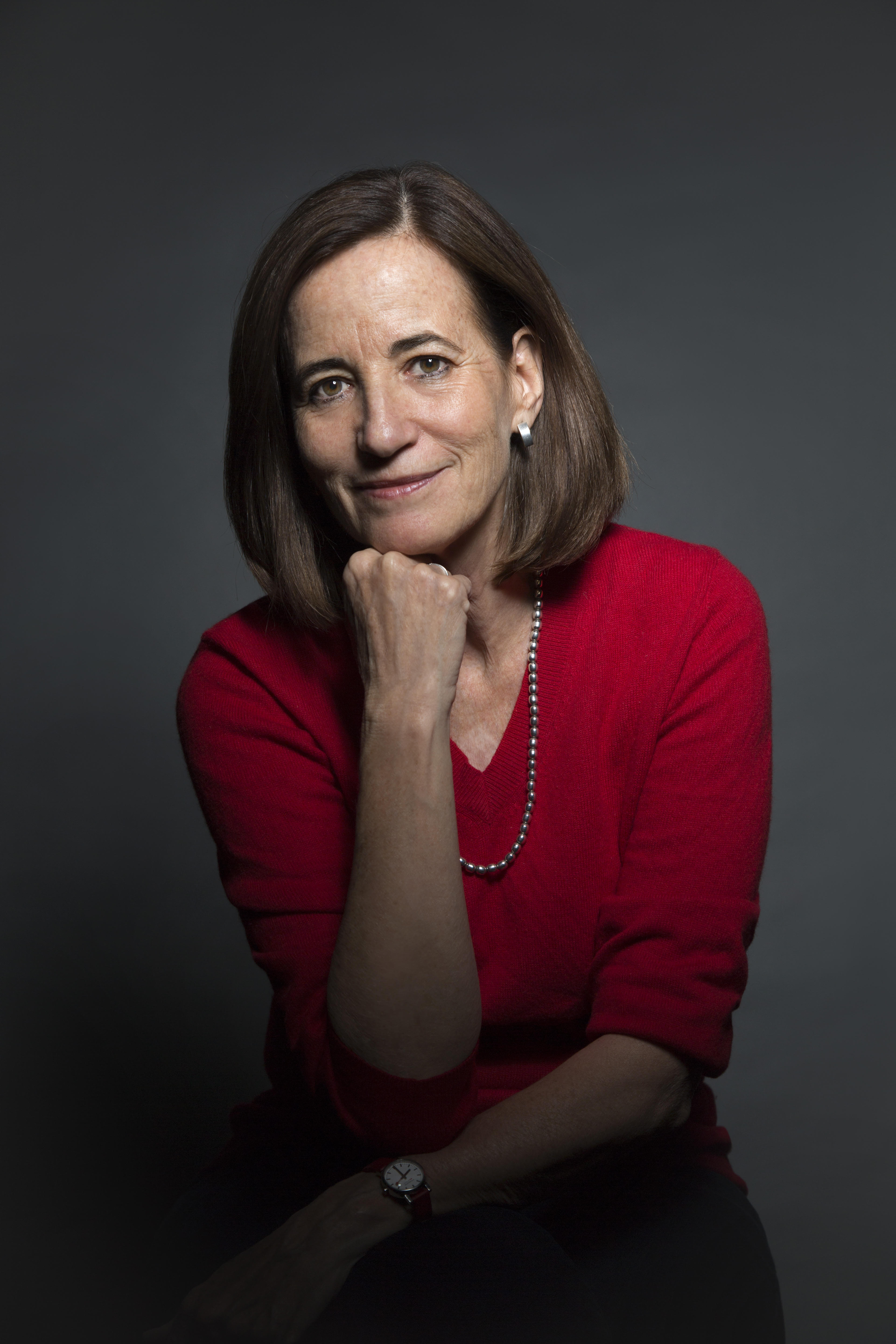 Mexican writer and journalist, Mónica Lavín (photo: Hans-Paul Brauns)